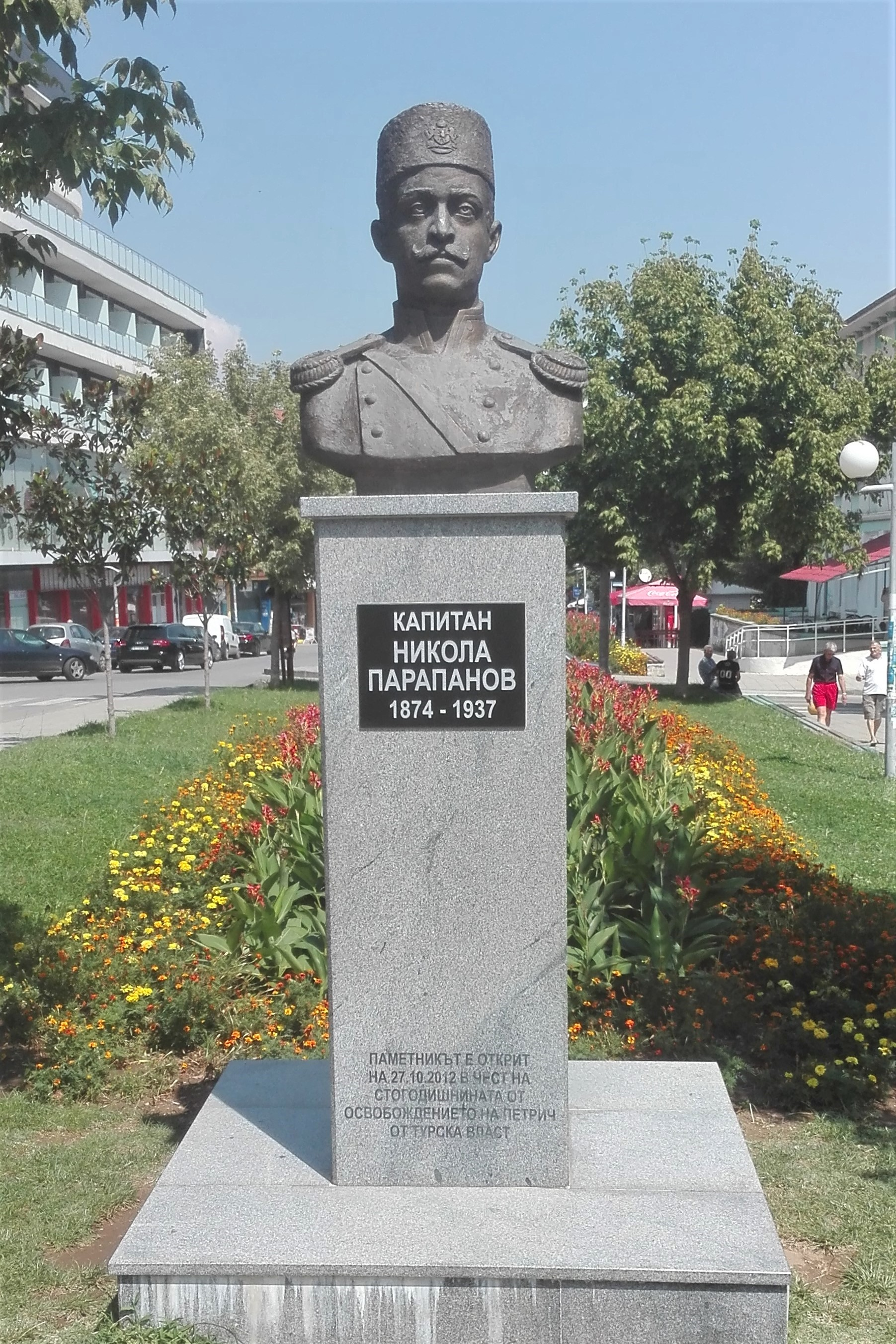 Bust-monument of Captain Nikola Parapanov in Petrich, Bulgaria